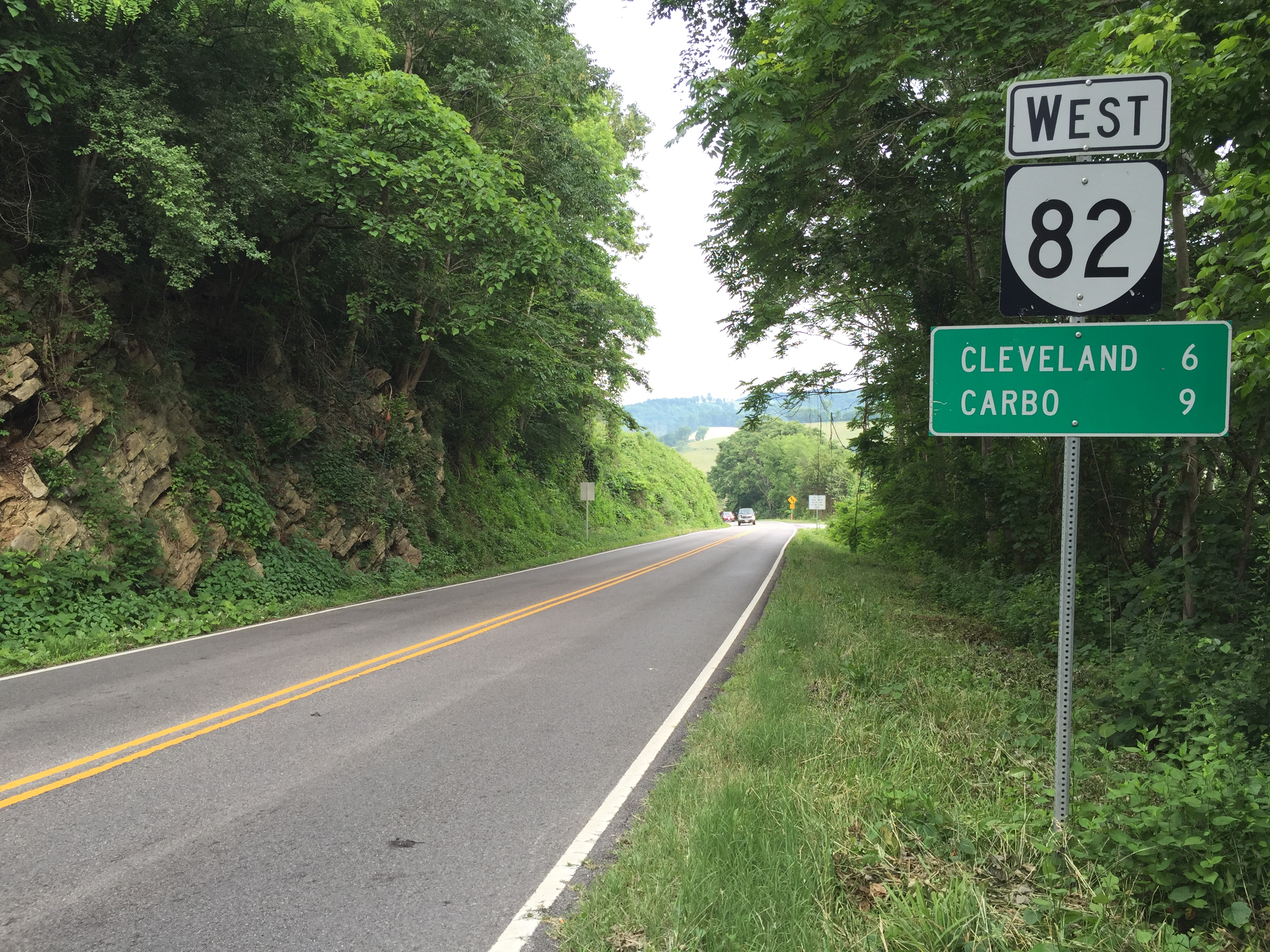 View west along Virginia State Route 82 (Cleveland Road) just northwest of Lebanon in Russell County, Virginia